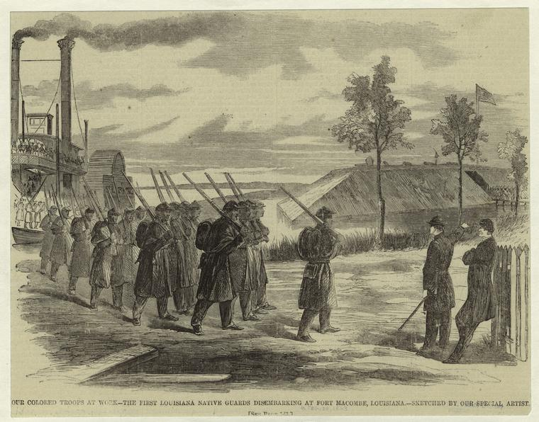 American Civil War scene. "Our colored troops at work -- the 1st Louisiana native guards disembarking at Fort Macomb, Louisiana."